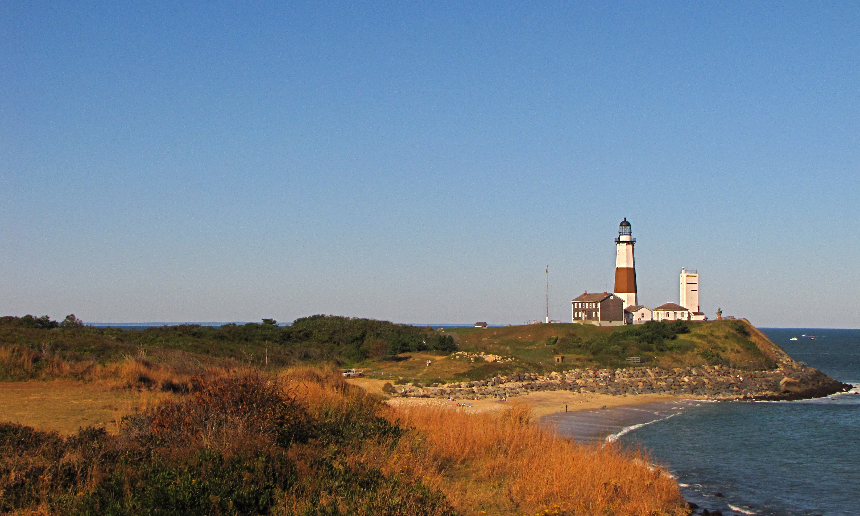 Montauk Point Light in Suffolk County, New York.